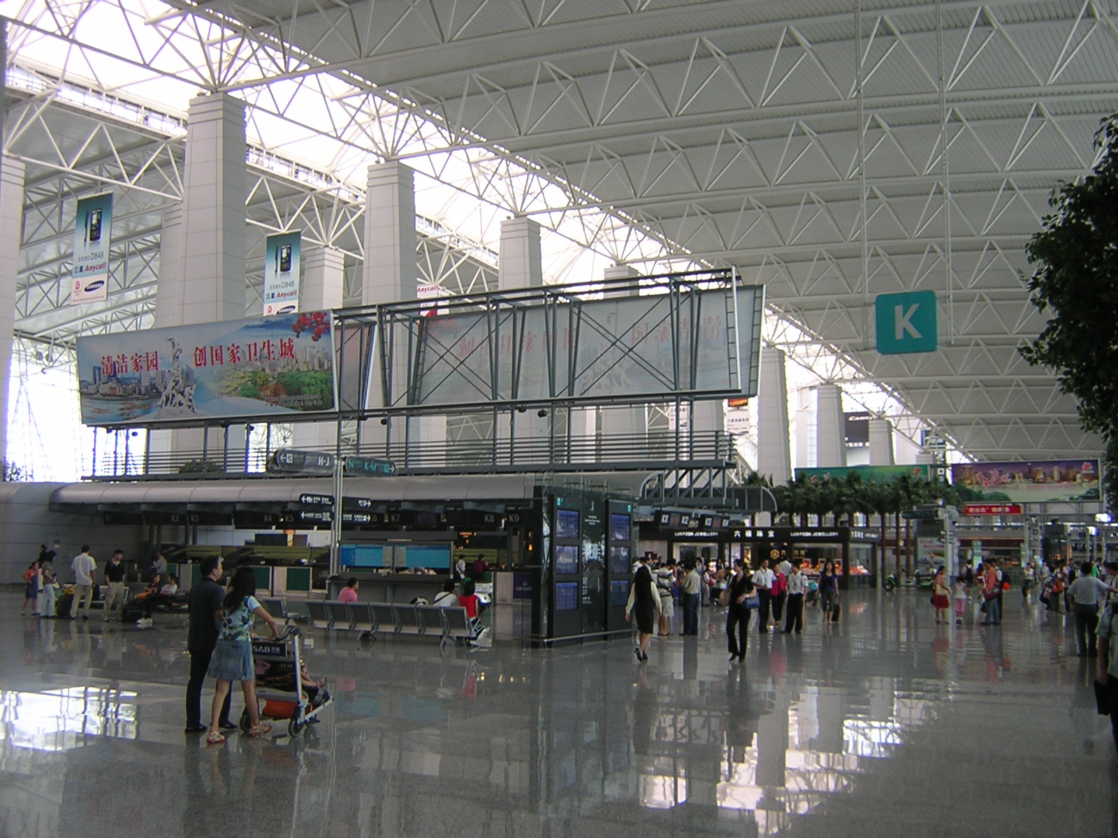 Inside the terminal at Guangzhou Baiyun Airport.